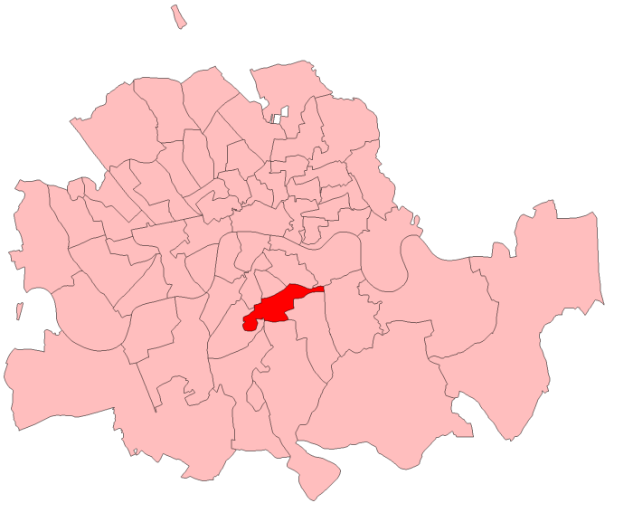 A map of Camberwell North constituency within the Metropolitan Board of Works area, as it existed from 1885 to 1918.